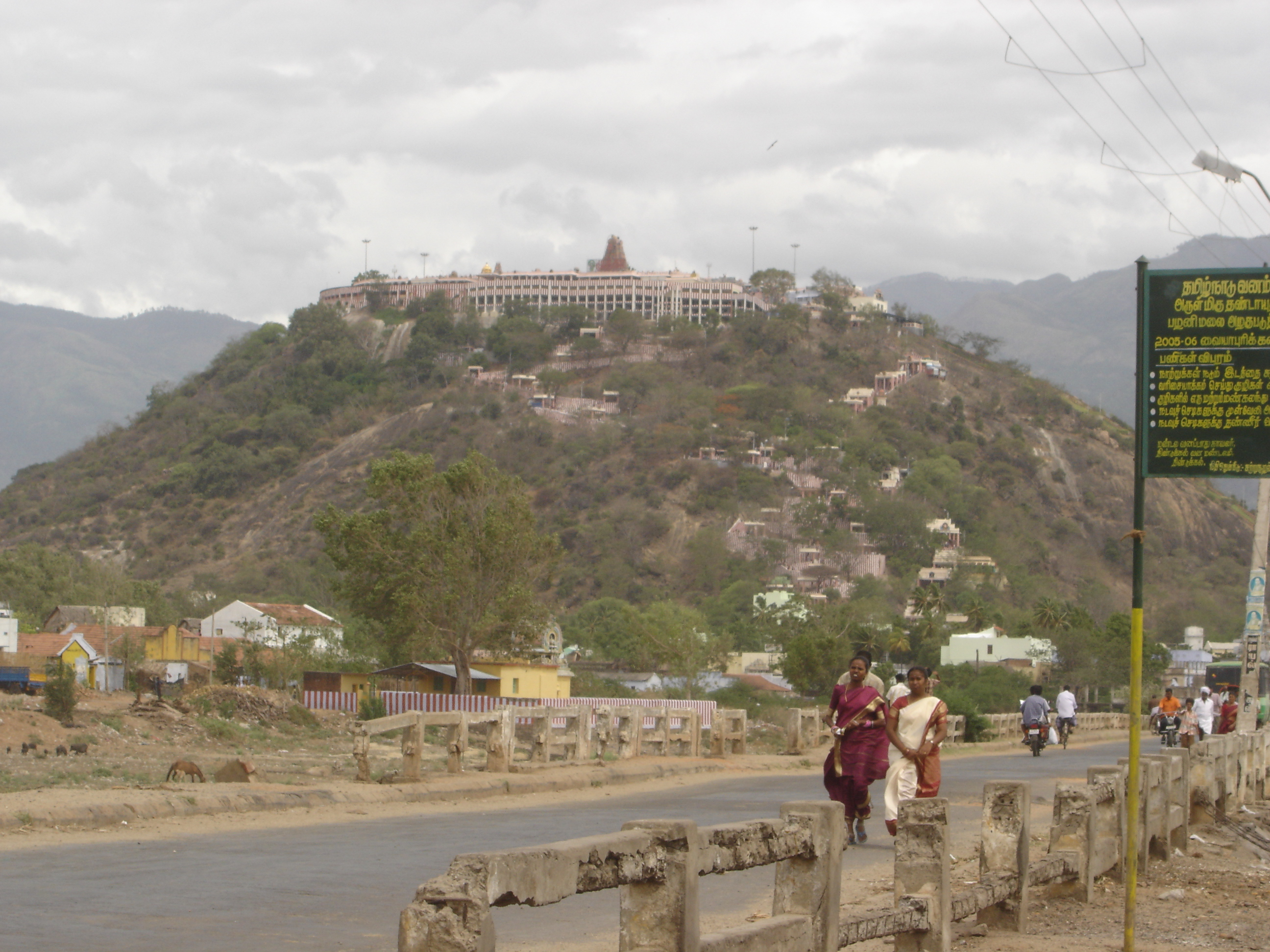 Palani Hill on top of which lies the Palani Murugan Temple.